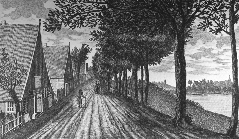 The Eisenradsdeich (today Osterdeich) levee next to the river Weser in Bremen, Germany. Copper engraving from the year 1781 by D. A. Ernsting.